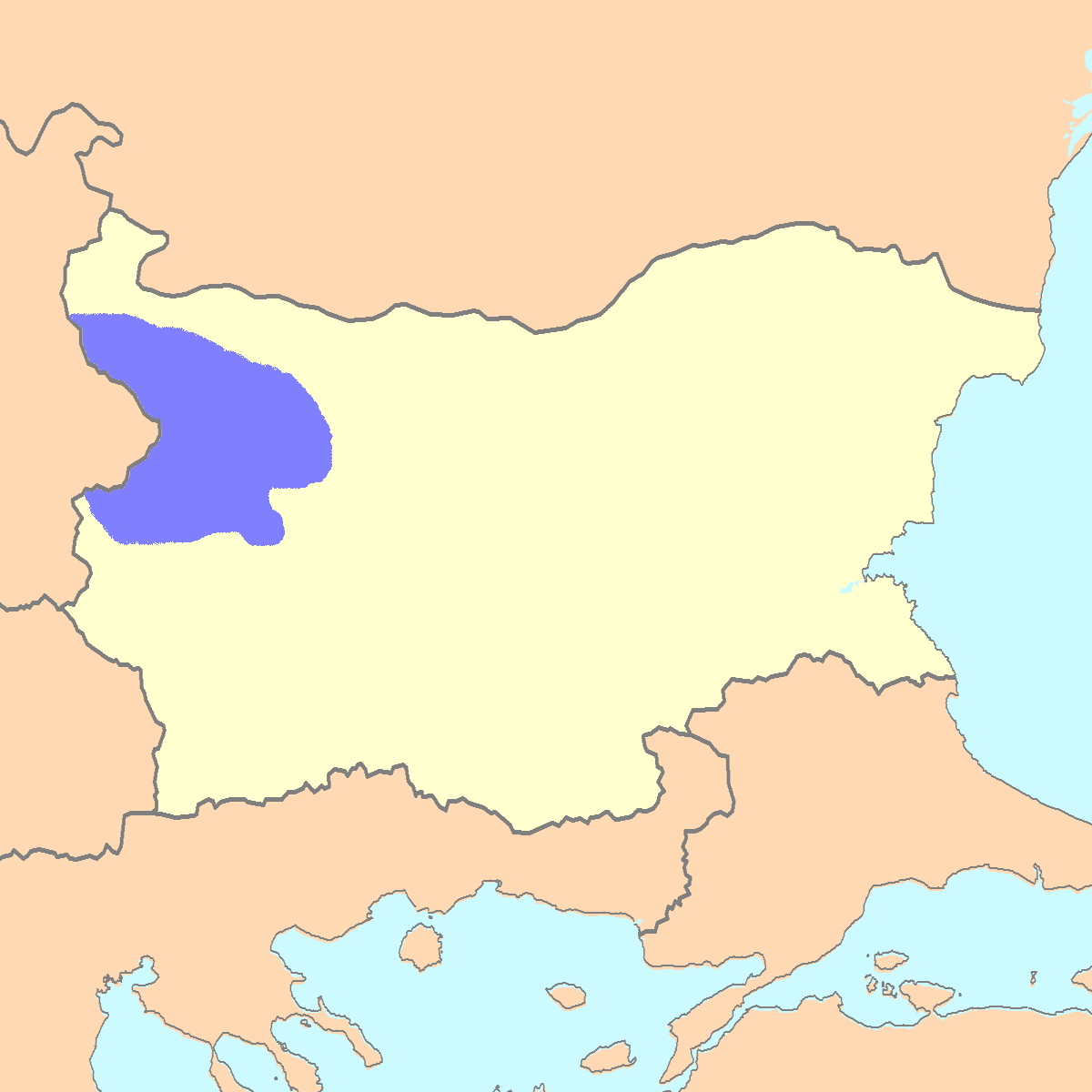 Replyan Sheep area of distribution